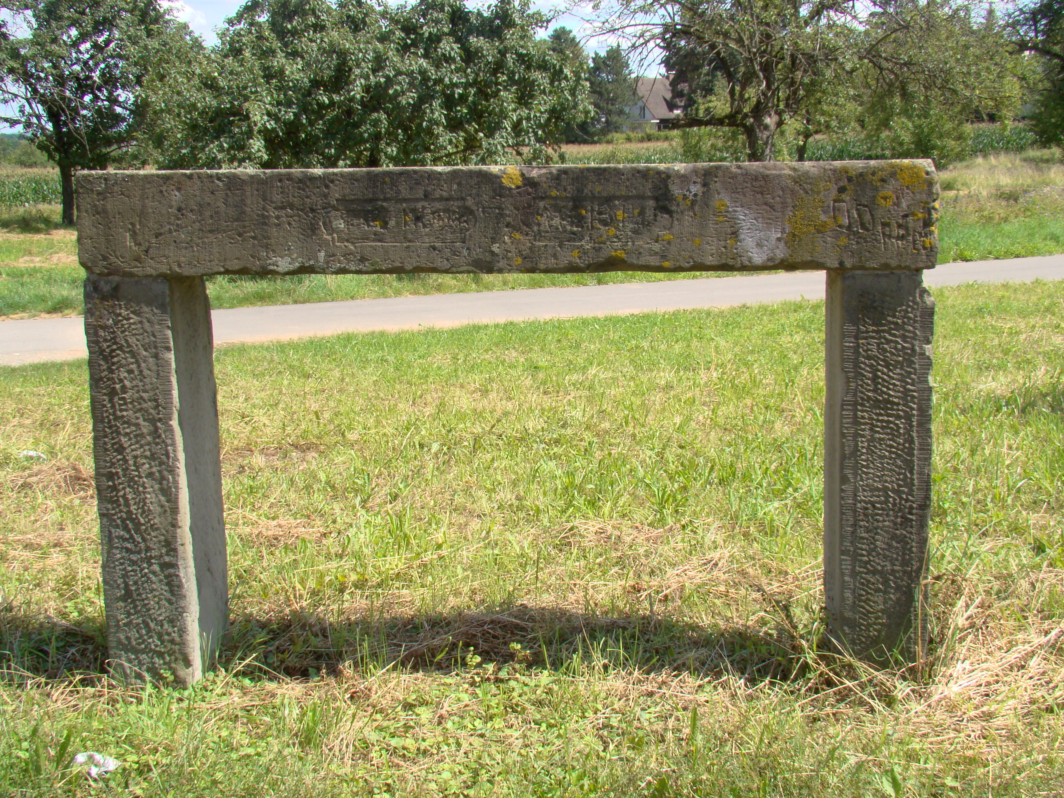 Ludwigsburg, Ruhbank of 1814